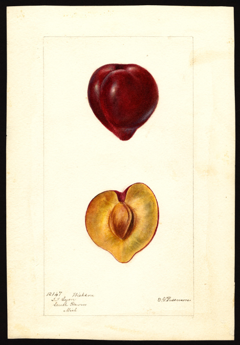 Watercolor of the Wickson Plum by Deborah Griscom Passmore, 1896.